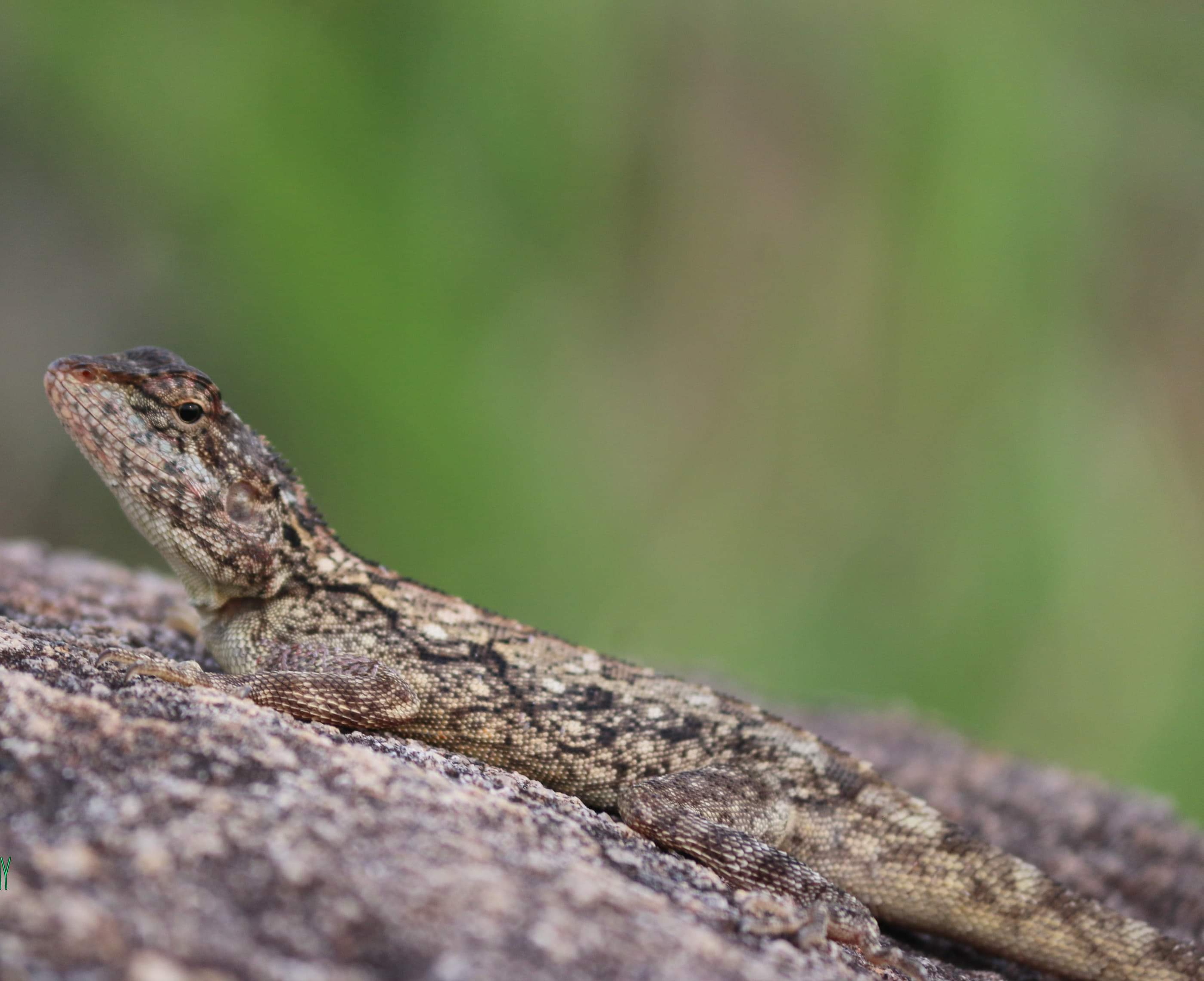 Peninsular rock agama female, from kodikuthimala,Perinthalmanna